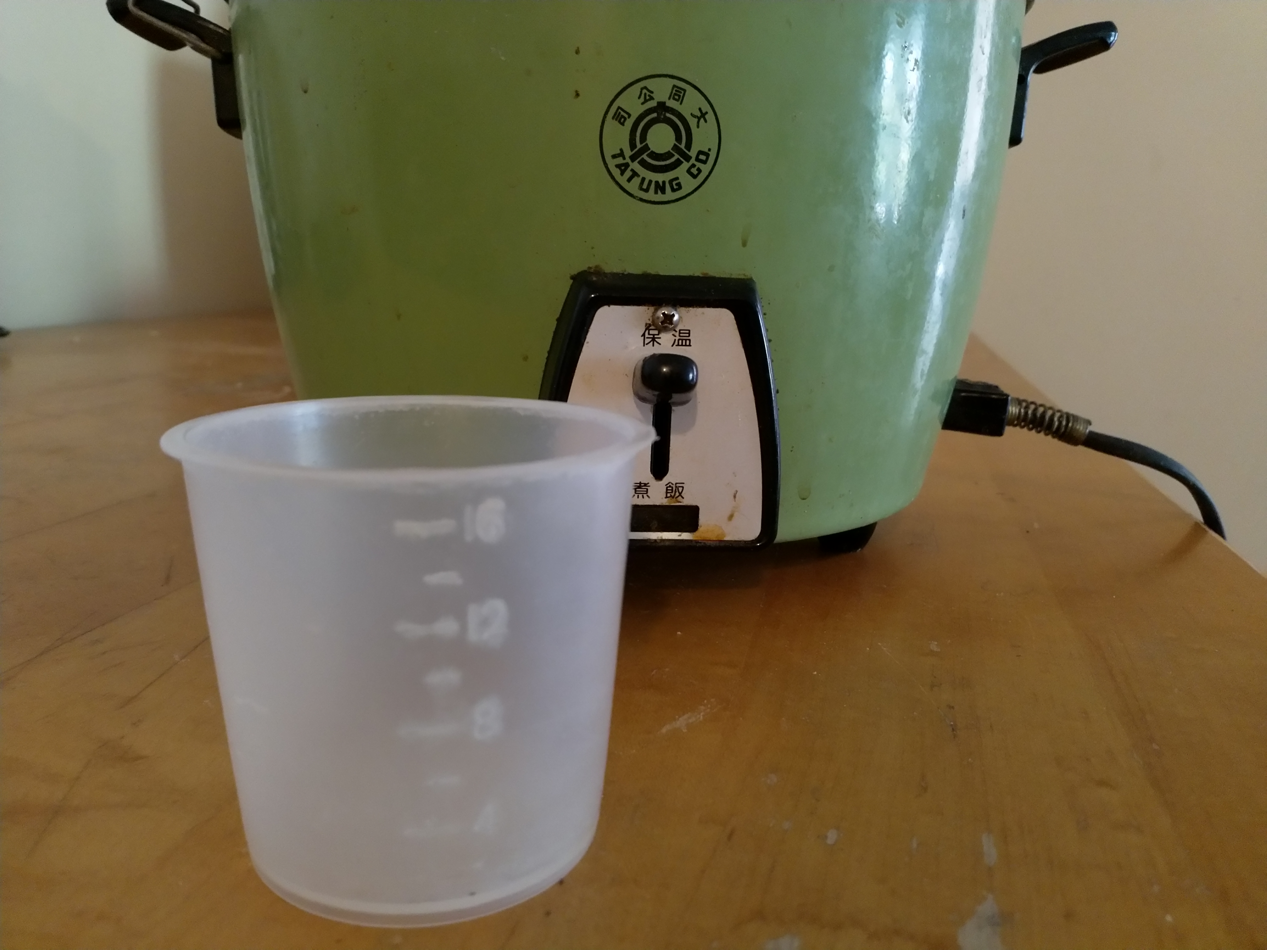 A plastic rice measuring cup before a Tatung brand rice cooker on a wooden table. The volume is 180 mL. This is a common Taiwanese household item.